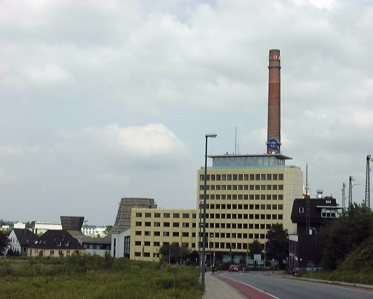 Bielefeld, Germany: Administrative building of the Stadtwerke, on the left in the background two cooling towers.